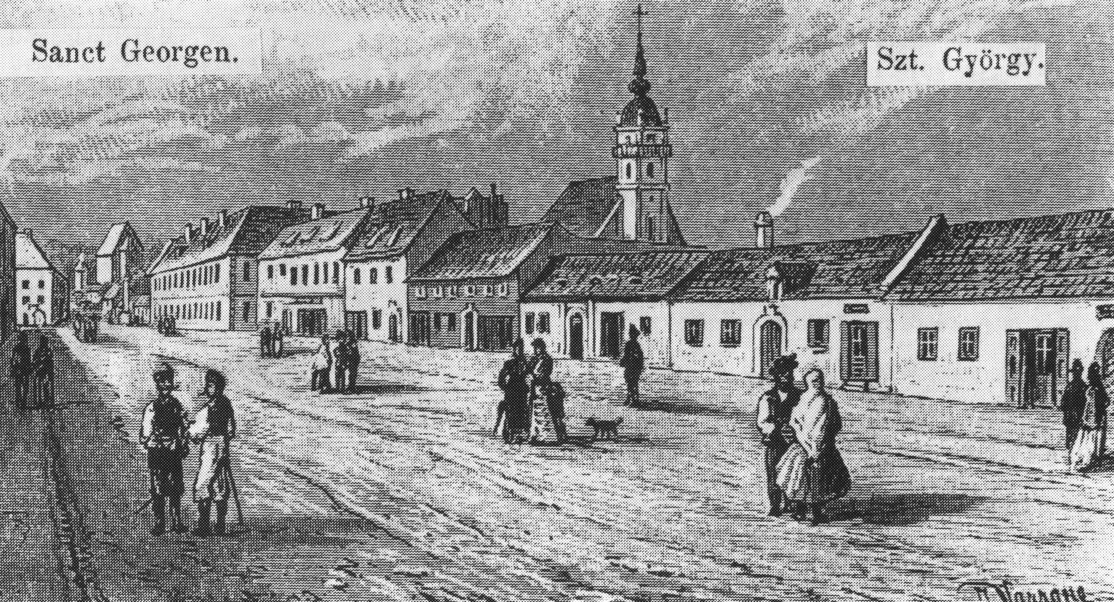 Svätý Jur, main square in the 19th century